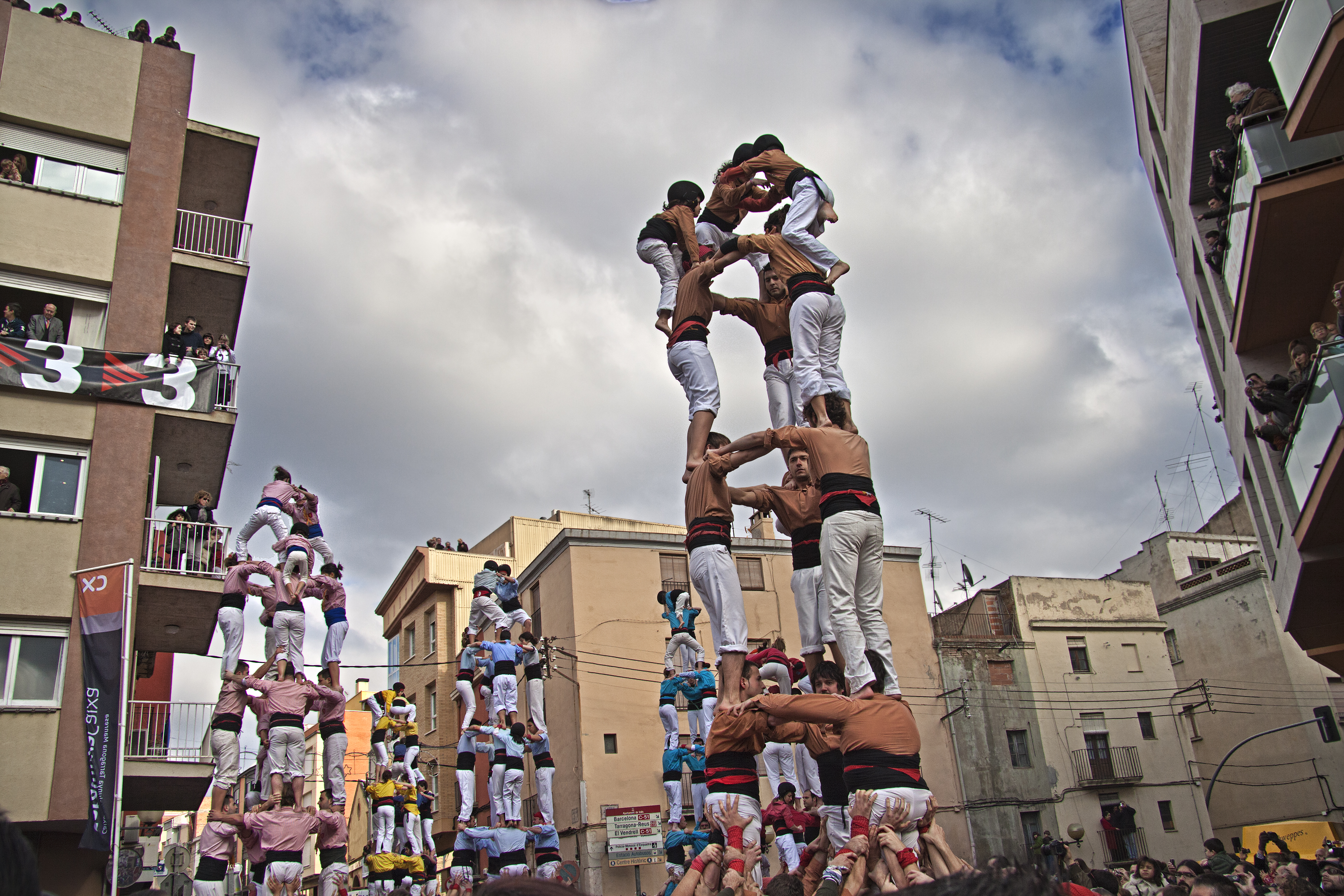 This is a photography of a Folklore festival in Spain (Wikidata id Q2838024).